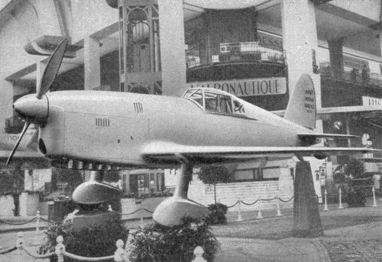 Mureaux 190 photo from L'Aerophile December 1936